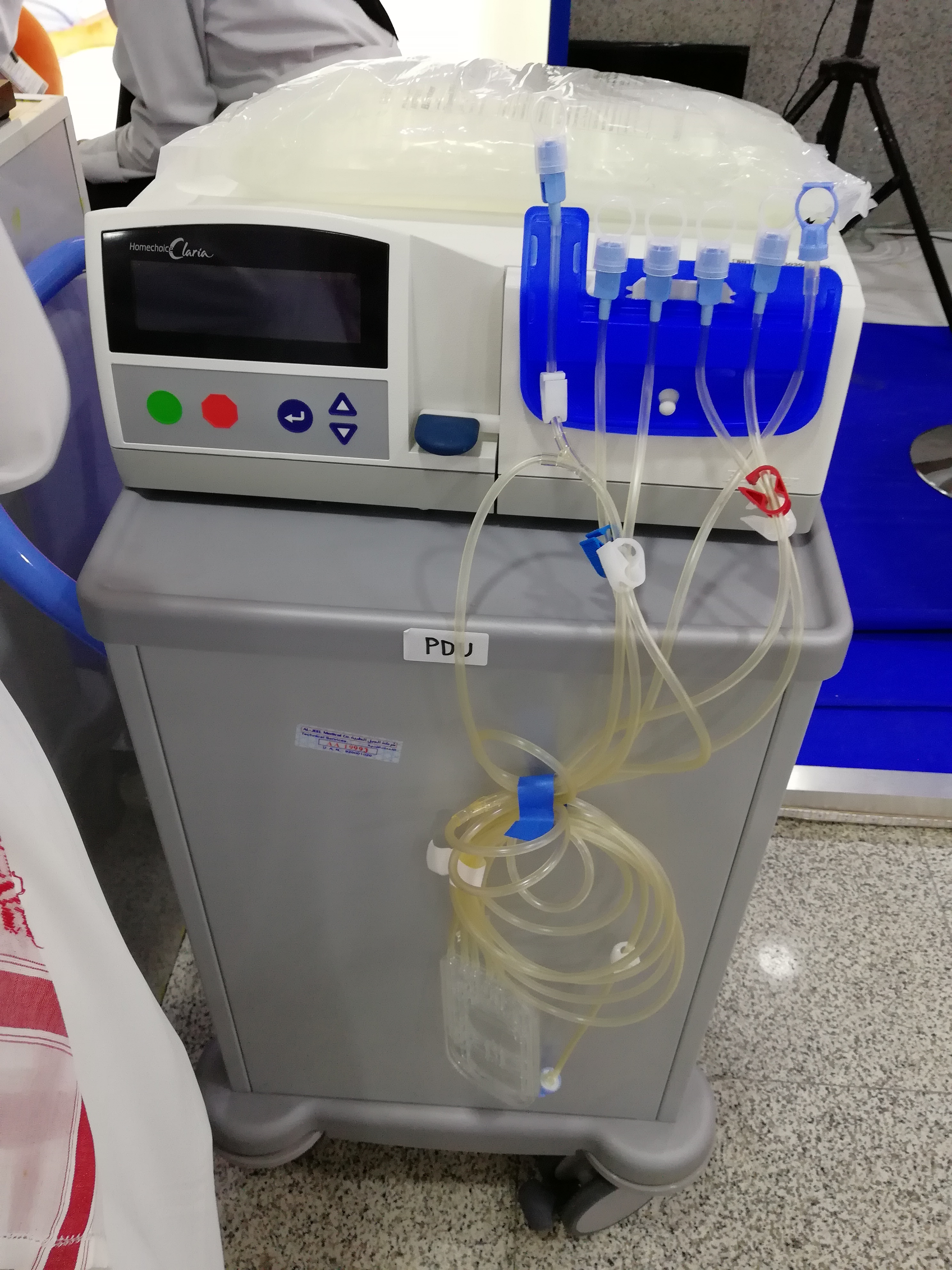 PD machine and set at KFHU lobby during the show of the International kidney day.